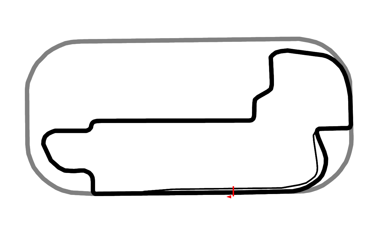 Track map of the course used during the 2014 Verizon IndyCar Series Grand Prix of Indianapolis.